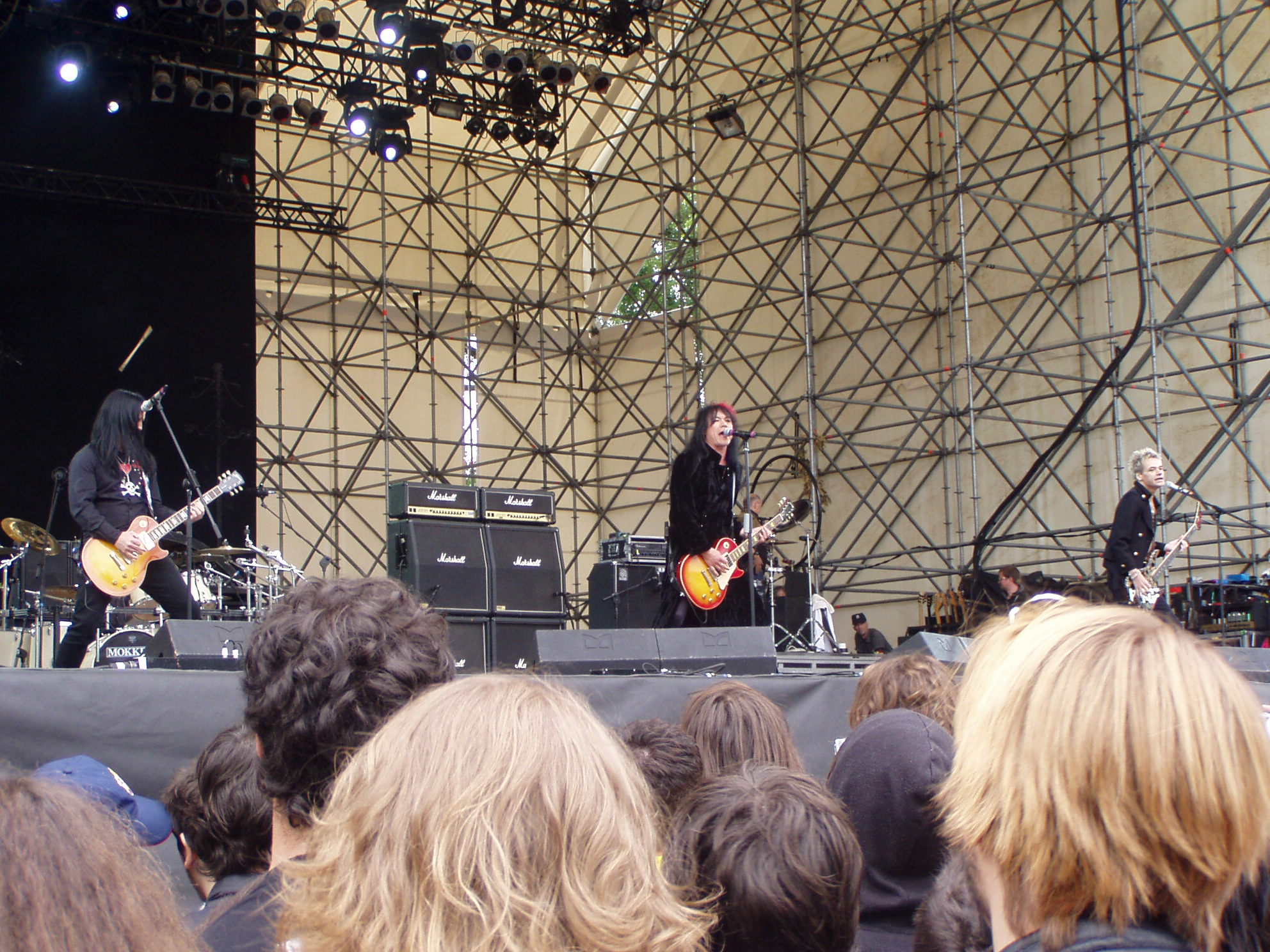 I Tigertailz al Gods of Metal 2007